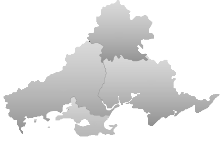 Map of Shanwei in Guangdong province.